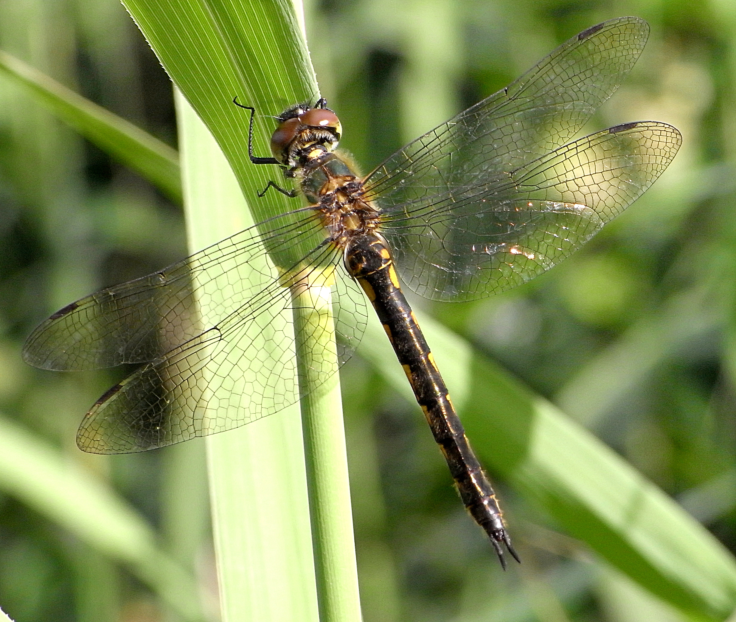 Somatochlora flavomaculata from Southern Germany near Rottweil, 700 m Ricoh R8